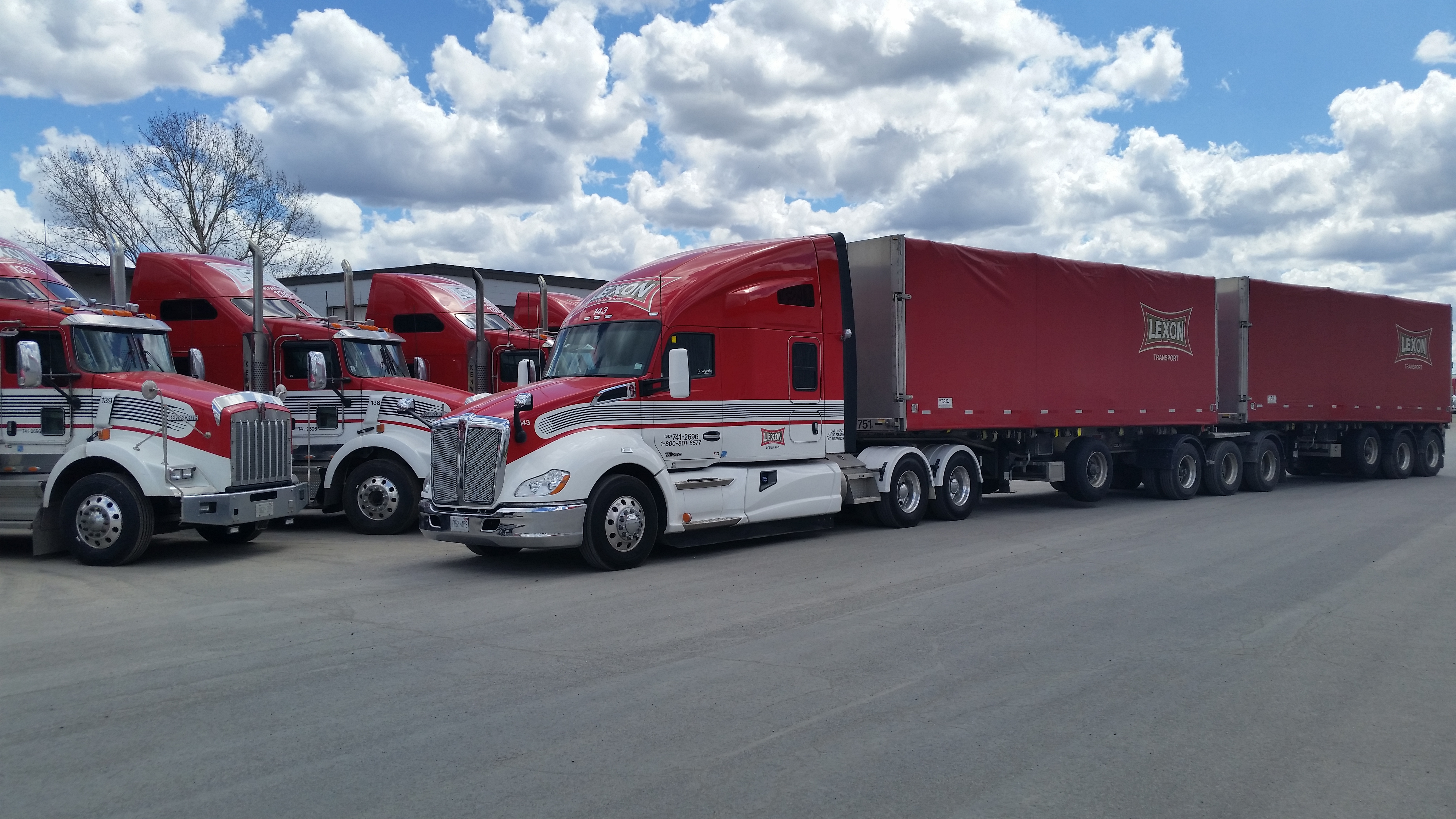 Lexon Transport Tractor 143 (2016 Kenworth T680) and Trailer 751 (2016 Manac Darkwing B-Train Double Trailer), in front of several truck tractors of the fleet, mainly composed of Kenworth T800's.